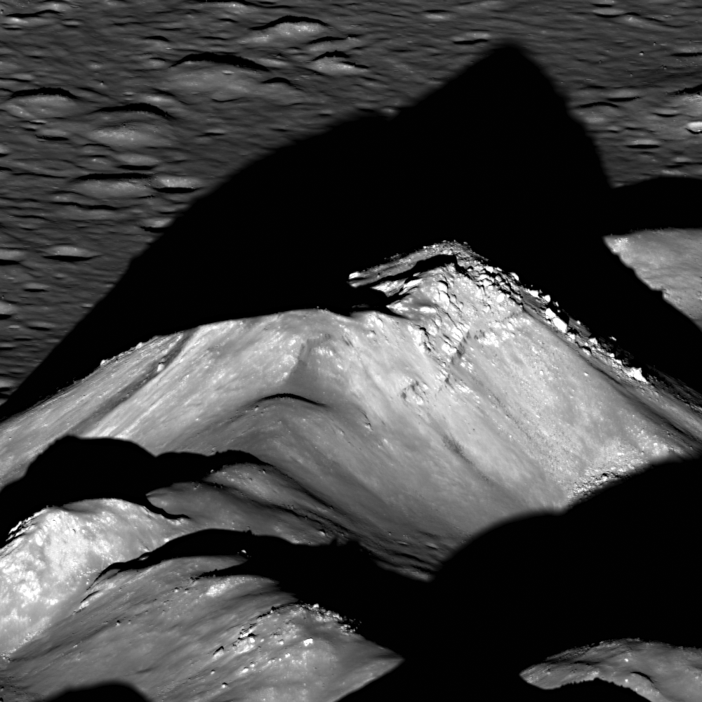 Copernicus crater central peak casts a long shadow to the west over a crater floor that was flooded with impact melt that cooled and hardened to form this spectacular landscape. LROC NAC M193025138LR, image width is 1350 m [NASA/GSFC/Arizona State University].